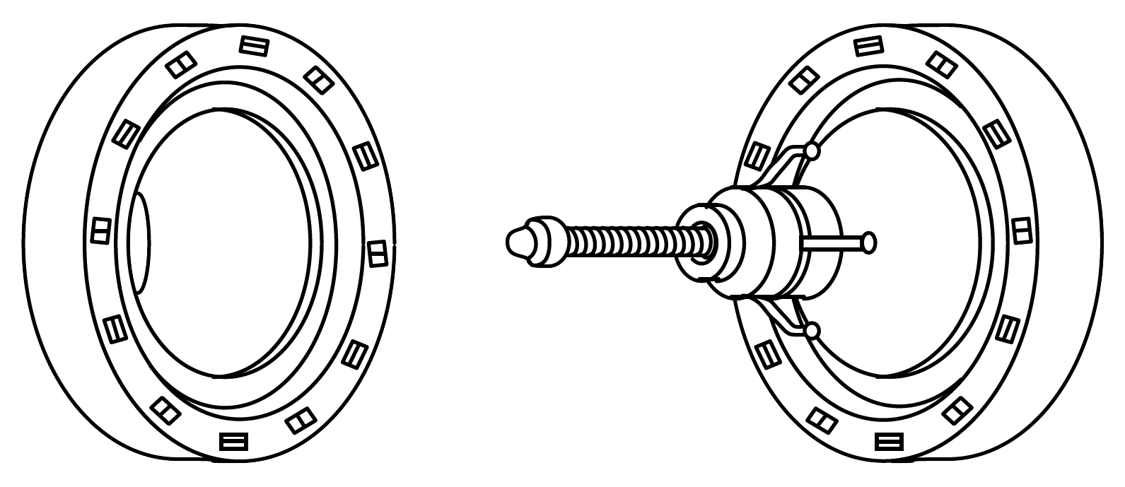 Soyuz internal transfer docking unit. This system is used today for docking spacecraft to Mir. The active craft inserts its probe into the space station receiving cone. The probe tip catches on latches in the socket at the apex of the cone. Motors then draw the two spacecraft together. Latches in the docking collars catch, and motors close them. Fluid, gas, and electrical connections are established through the collars. After the cosmonauts are certain the seal is airtight, they remove the probe and drogue units, forming a tunnel between spacecraft and station. At undocking, four spring push rods drive the spacecraft apart. If the latches fail to retract, the spacecraft can fire pyrotechnic bolts to detach from the station.